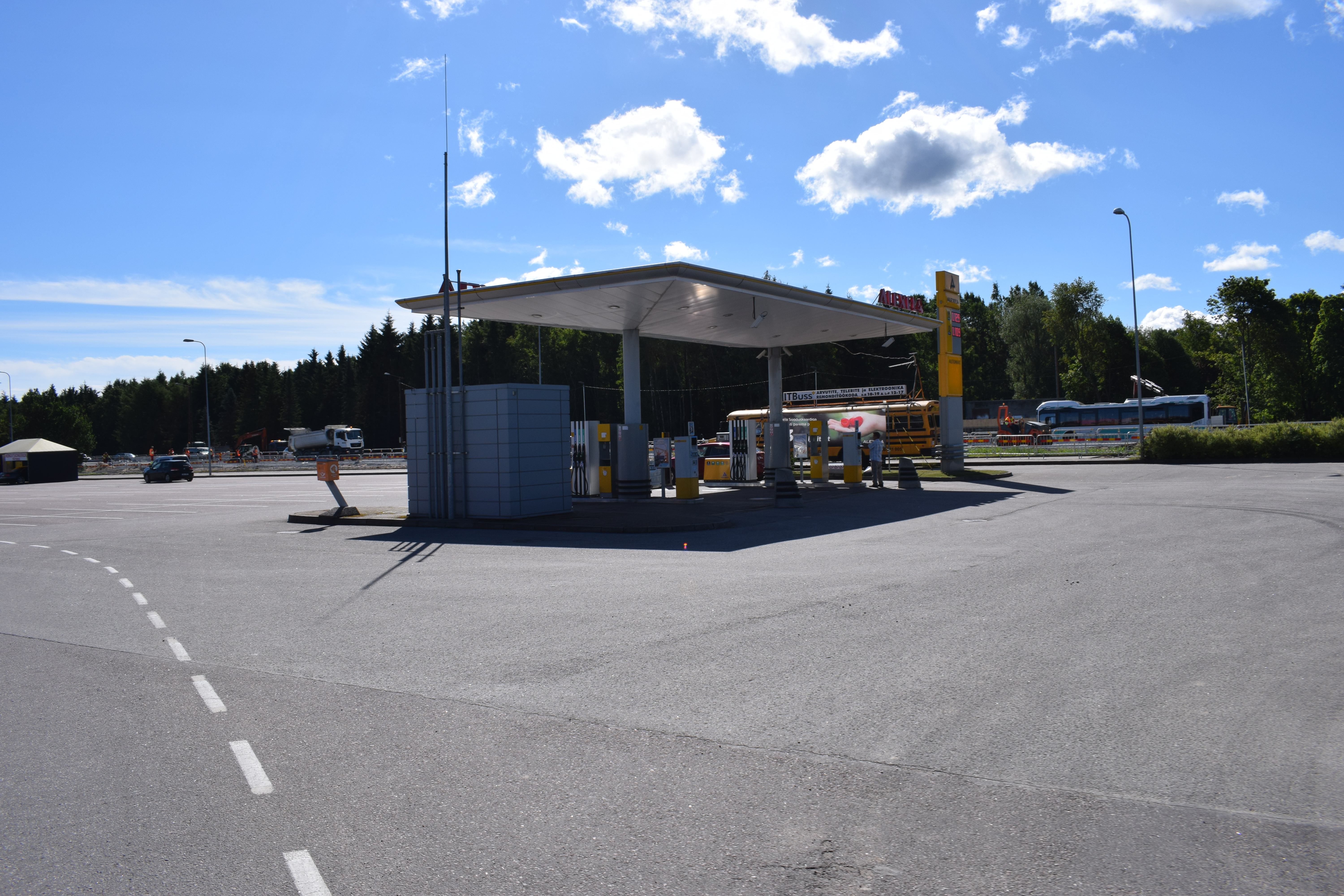 Alexela Gas station -Mõisa street 3